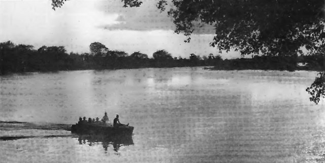 Force Publique Commander-in-Chief Auguste-Éduard Gilliaert crossing the Baro River near Gambela during the East African Campaign